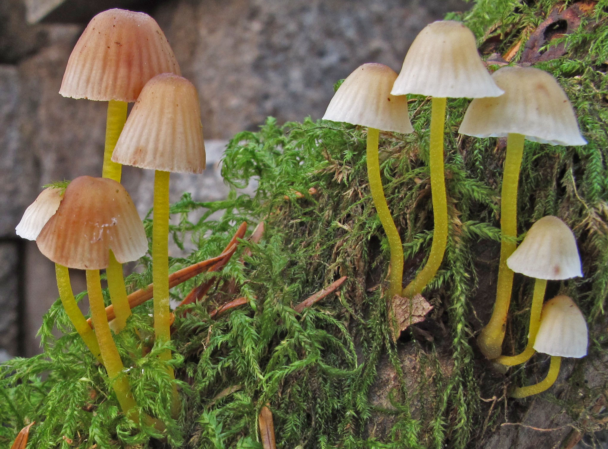 Mycena epipterygia (Scop.) Gray Image location: Larch Mountain, Multnomah Co., Oregon, USA Growing on dead branches, logs, stumps, in a coniferous forest. Found it in countless places today. Shorter-stemmed than what I was seeing a month ago. Odor the same—-slightly farinaceous. Stem always strong yellow. Typical spores 9.5-10 × 6.5-7 microns. Which of the numerous varieties of epipterygia this one is? Maybe we’ll find out later. Recognized by sight For more information about this, see the observation page at Mushroom Observer.